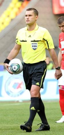 Russian football referee Vladislav Bezborodov.